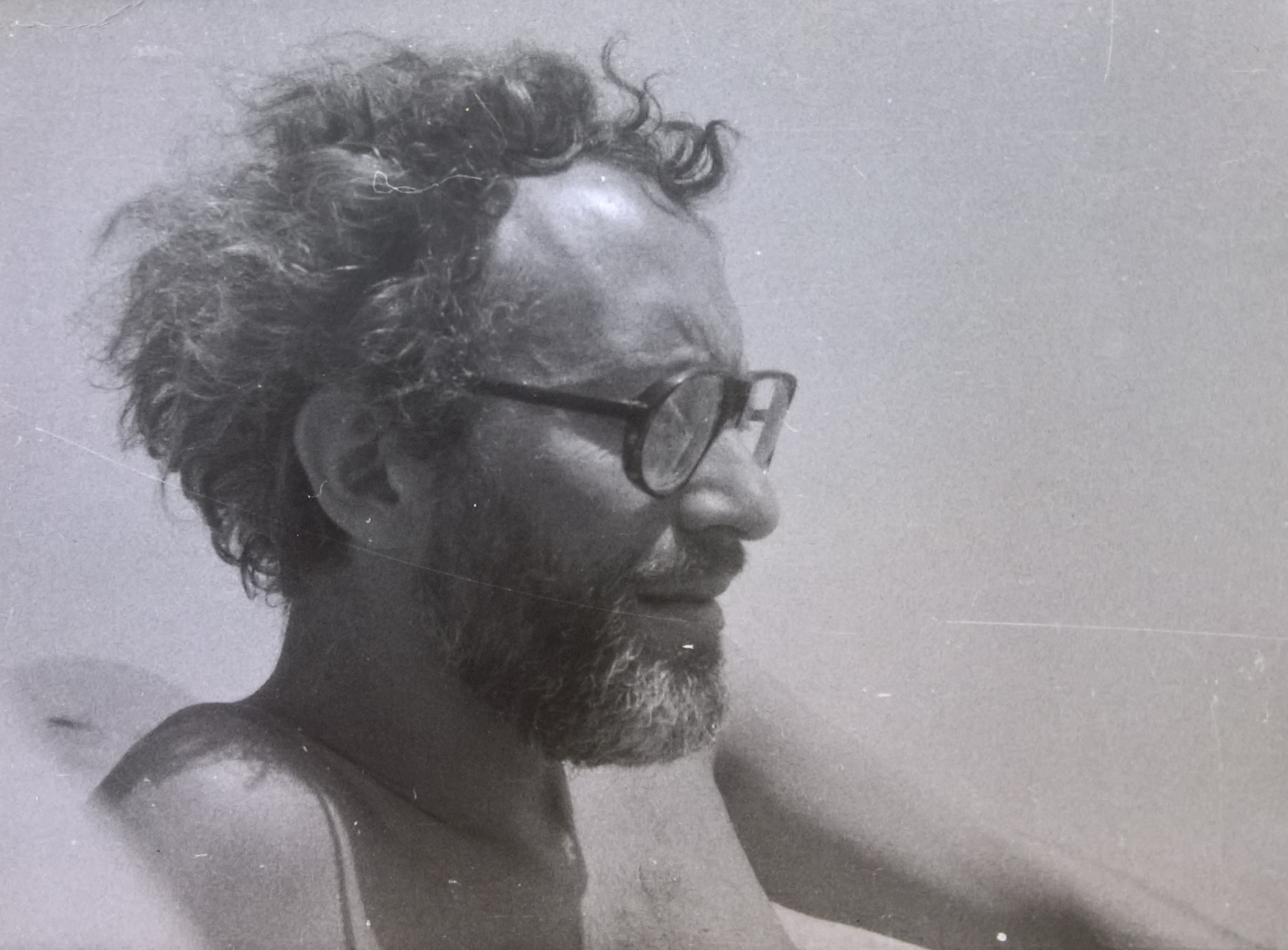 René Kalisky, Author